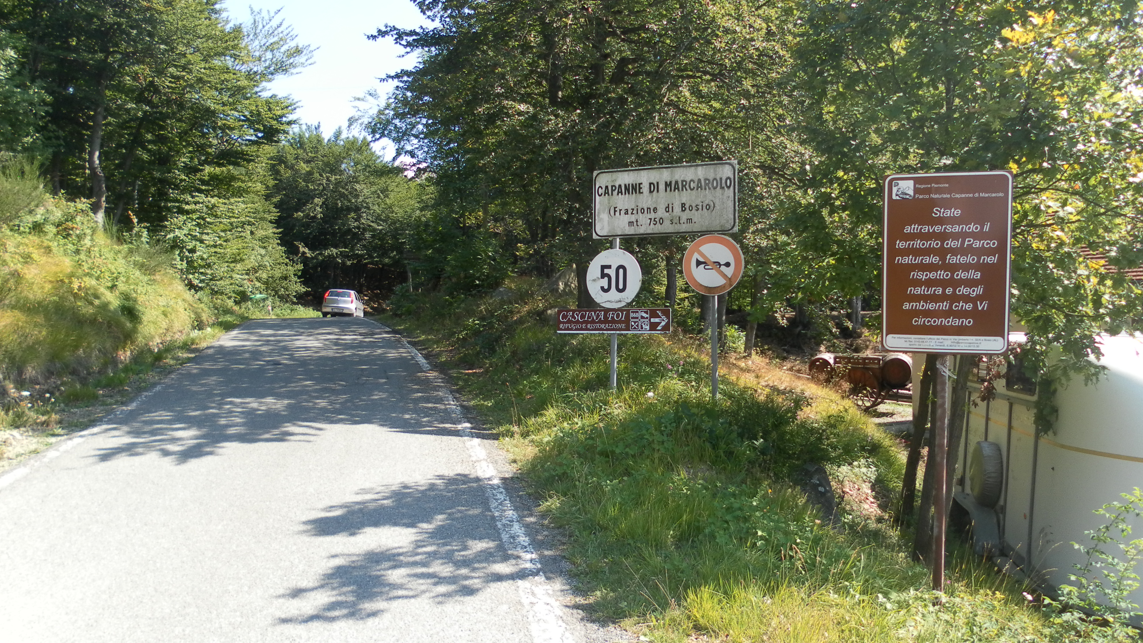 Capanne di Marcarolo, Bosio (AL)